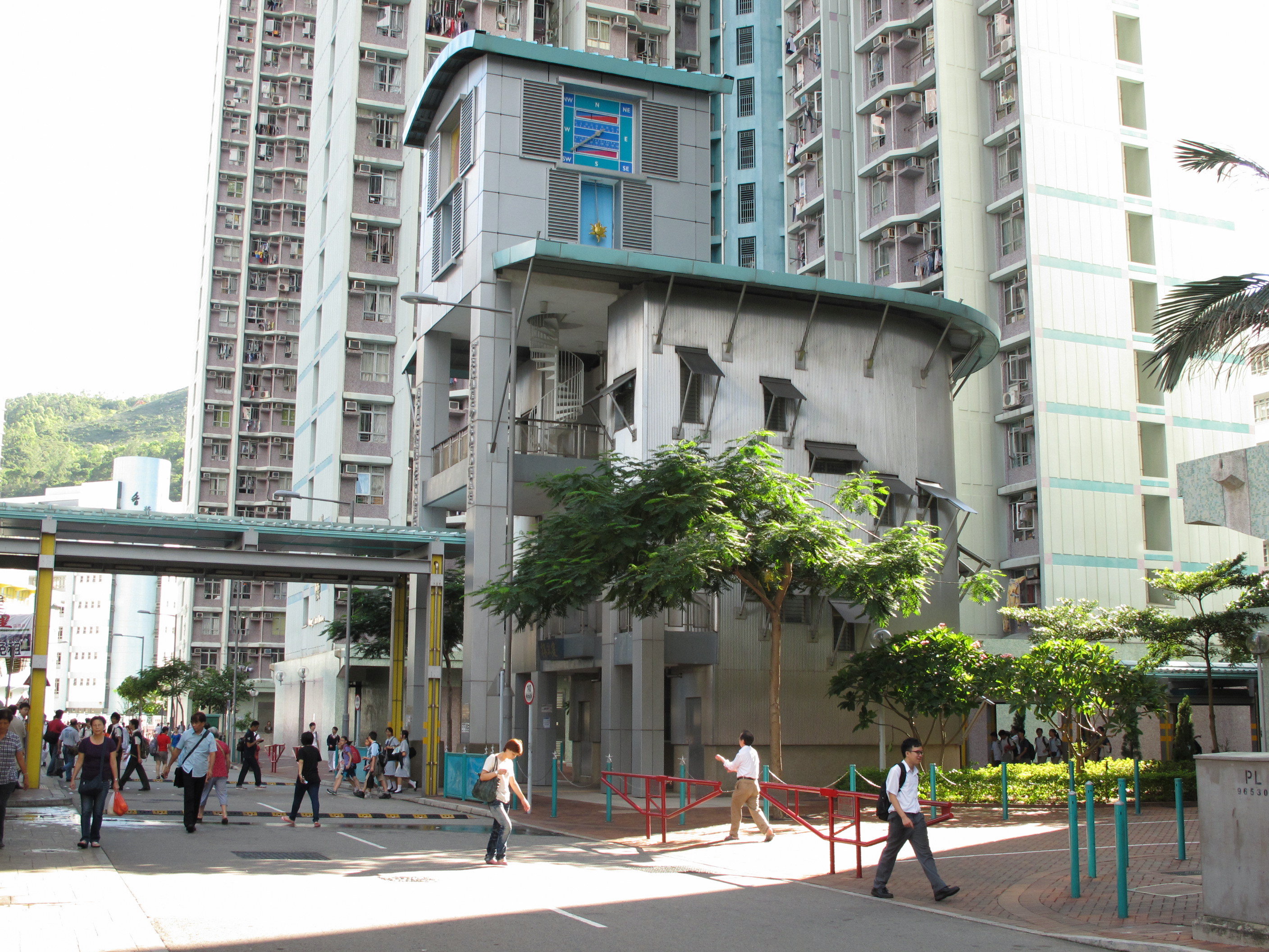 Kin Ming Estate Clock Tower